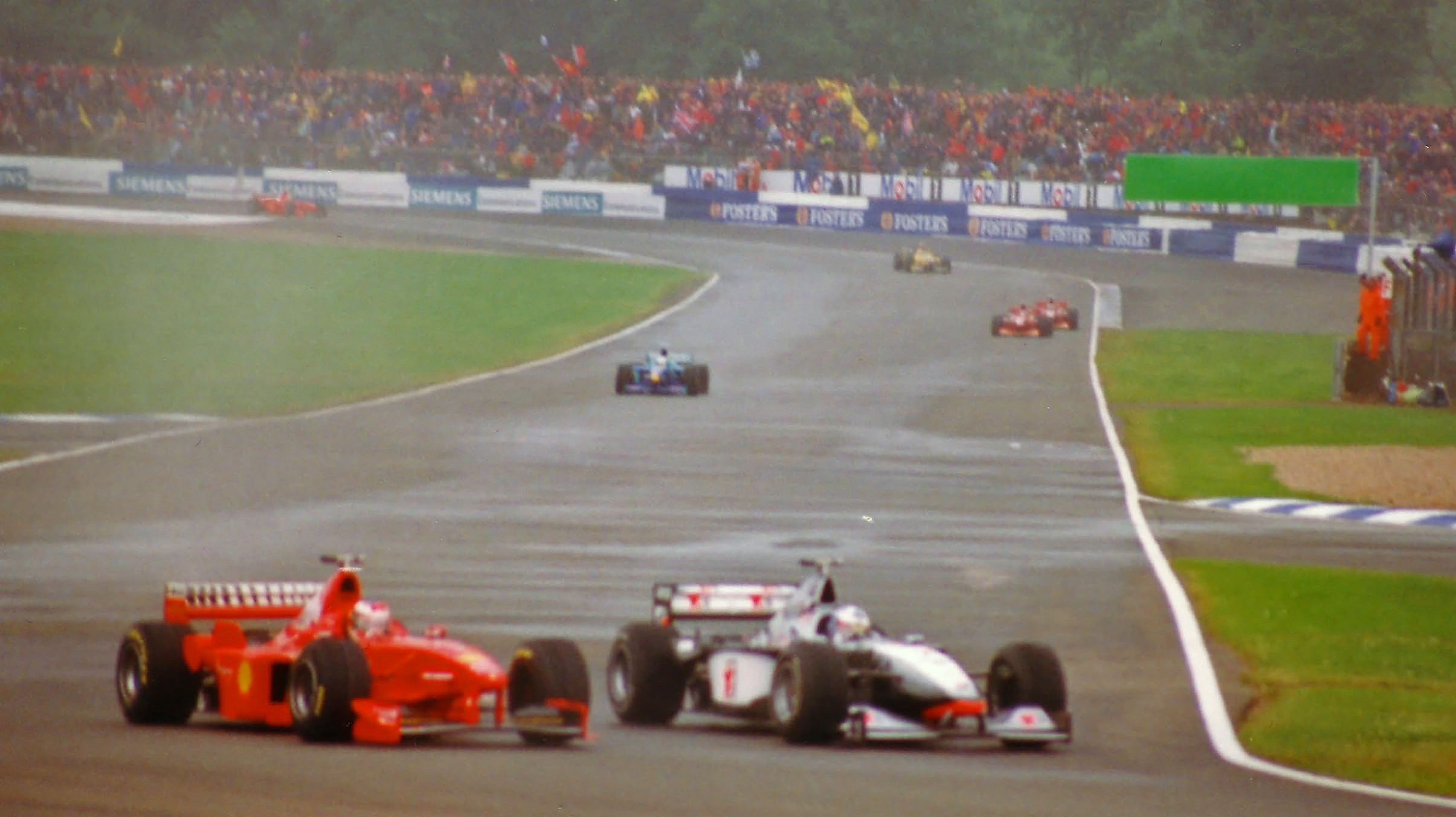 David Coulthard battles with Michael Schumacher through Abbey corner during the 1998 British Grand Prix.